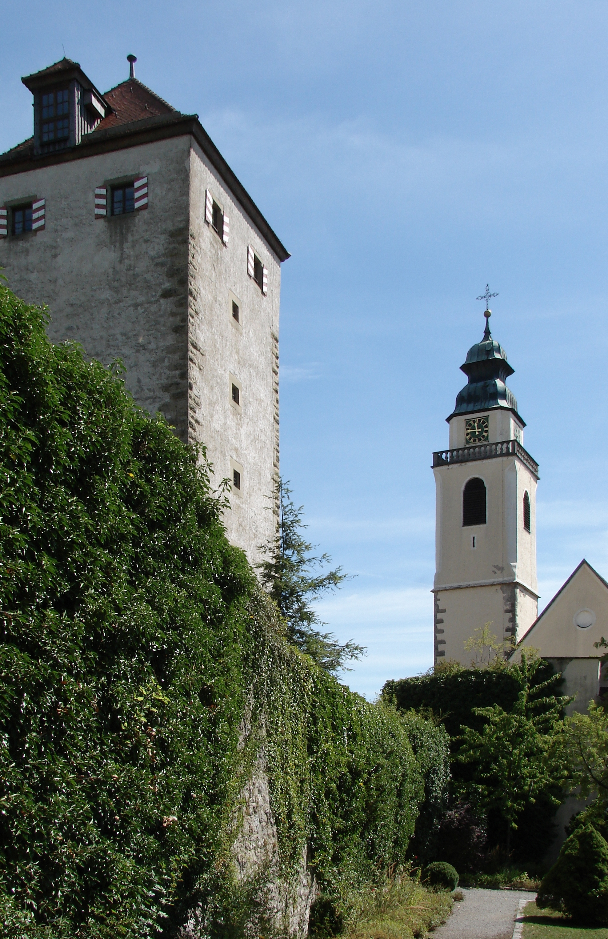 Horb am Neckar, Schurkenturm (villains' tower) and tower of the collegiate church